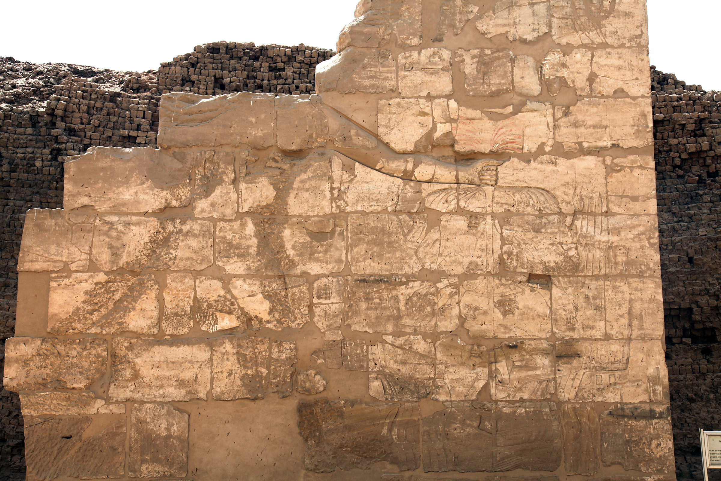 Foregate of Amenhotep IV, Karnak open air museum